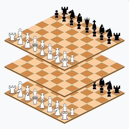 Using icons from Chess Utrecht (Hans Bodlaender); done in MSPAINT.